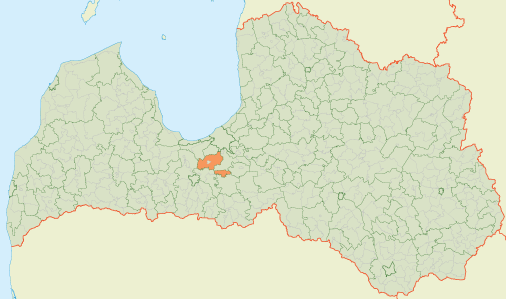 Location of Olaine Parish in Latvia